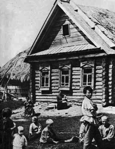 Photo of Russian Village near Arhangelsk 1896 Flickr data on 2011-08-13 Tags: old picture, old photo, village, kids, children, Arhangelsk, 1896 License: CC BY-SA 2.0 User: paukrus Ruslan